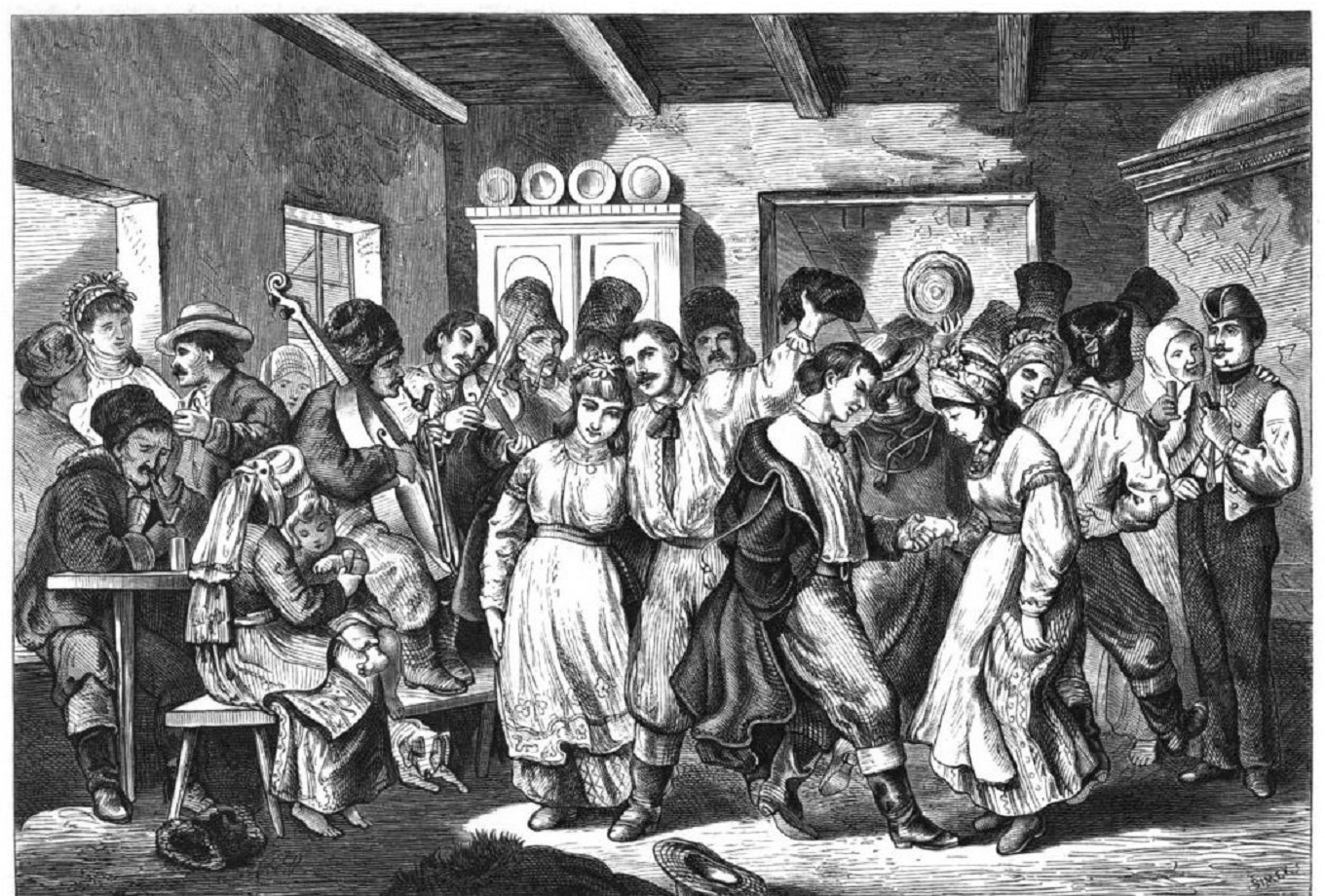 Ukraine. Podolia.